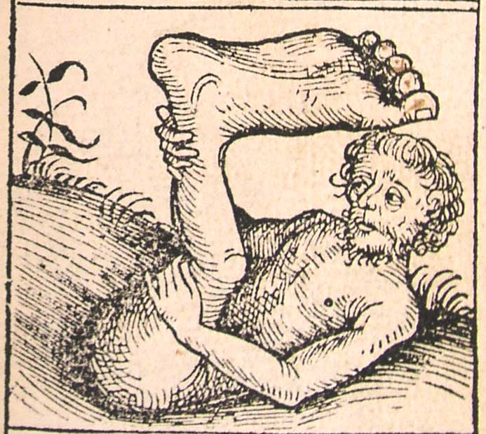 Woodcut from the Nuremberg Chronicle